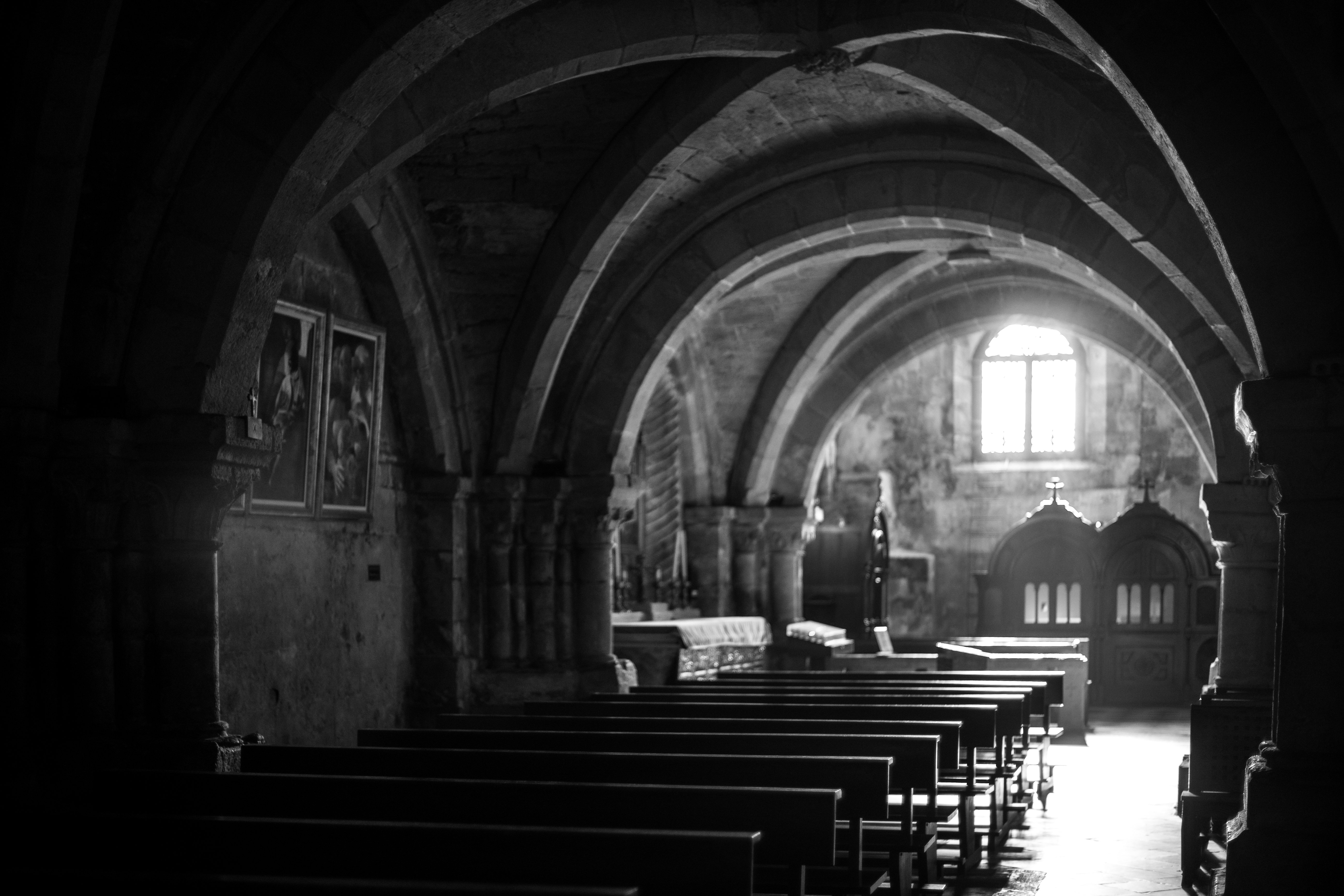 Sony Alpha a7 (ILCE-7) + Carl Zeiss Planar T* 50mm f1.4 C/Y (Contax/Yashica) @ 50mm f1.4 1/60s ISO-400